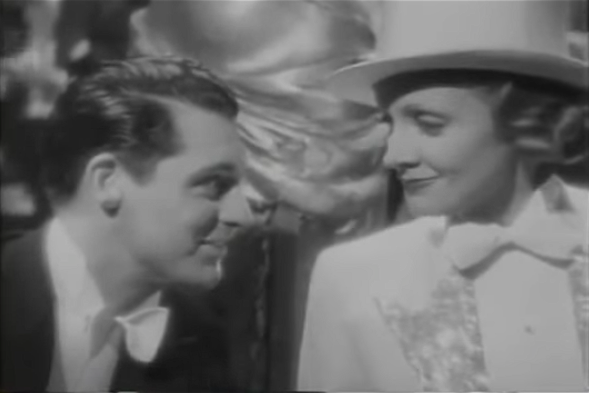 Trailer screenshot from the film Blonde Venus.